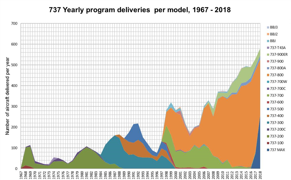 737 deliveries per year, 1967-2018